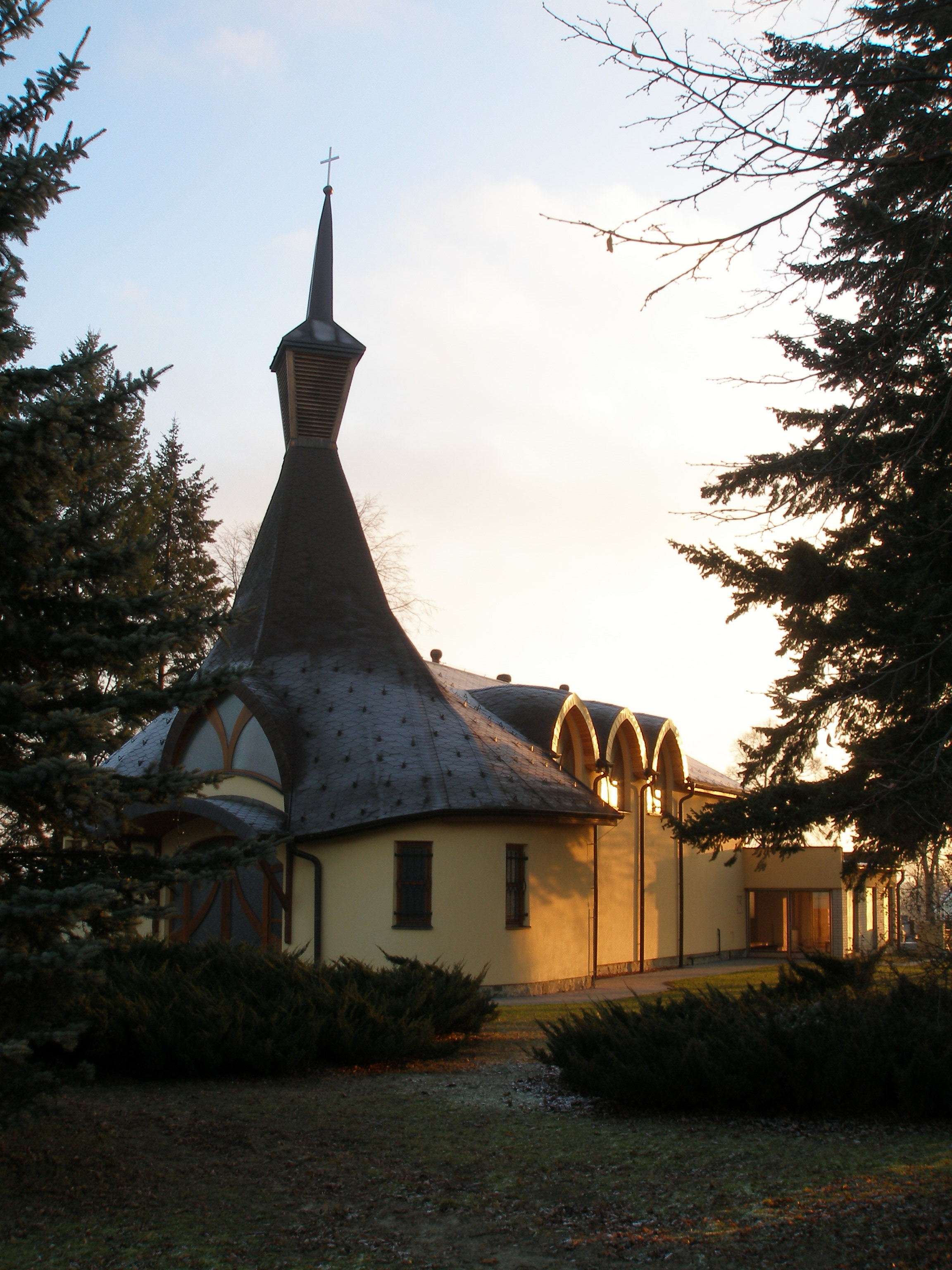 Chapel in Dolní Lhota, Ostrava-City District, Czech Republic